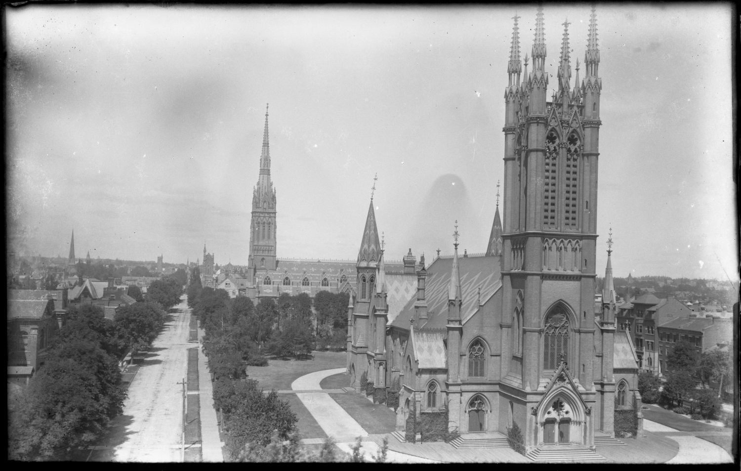 Metropolitan Methodist Church (later Metropolitan United Church) and St. Michael's Cathedral in the distance, with view northward on Bond Street. Toronto, Canada.